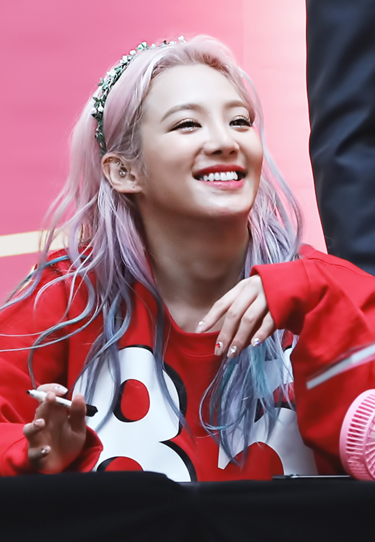 Kim Hyo-yeon at fansigning event in IFC Mall on August 13, 2017.